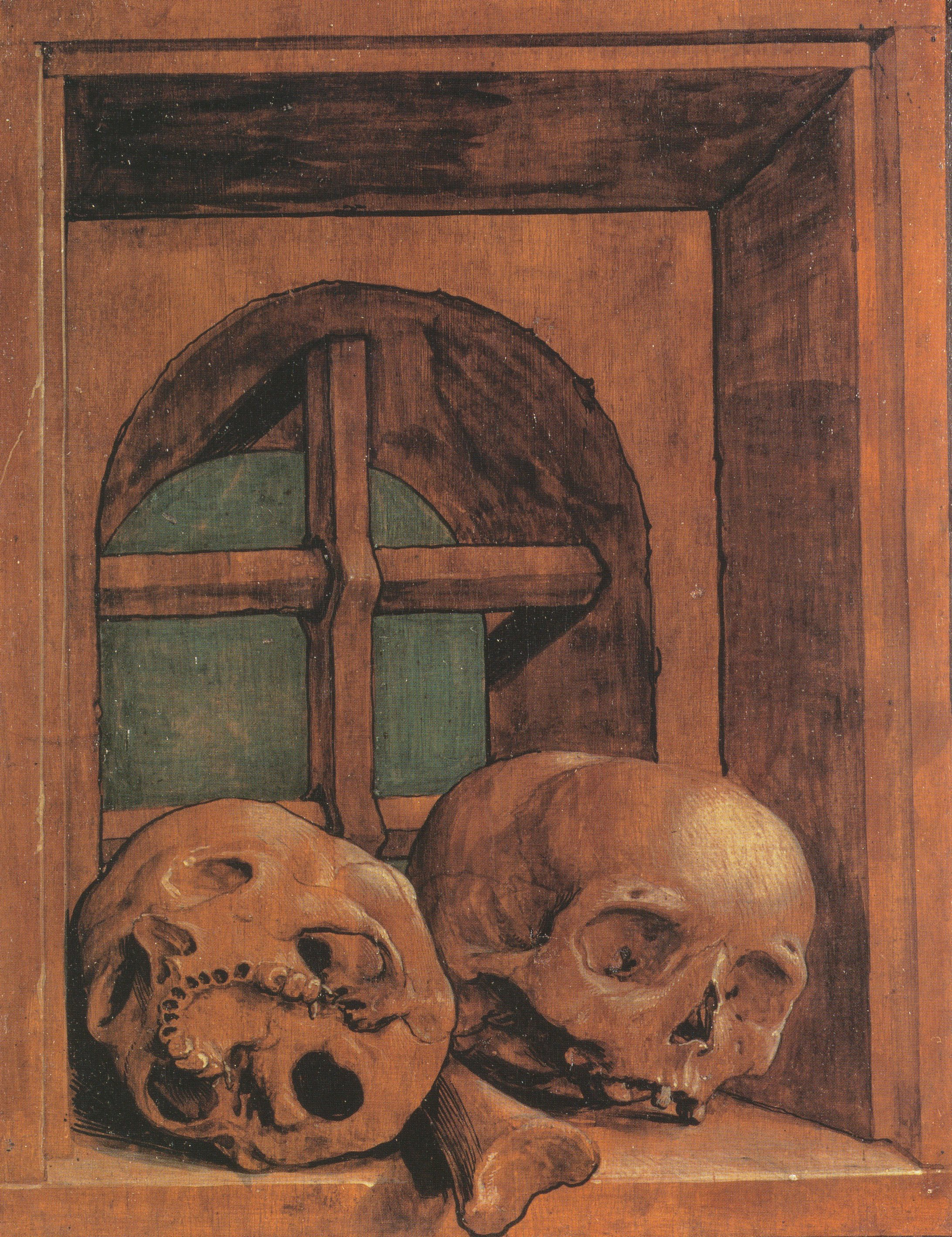 Two Skulls in a Window Niche. Oil on limewood, 33 × 25 cm, Kunstmuseum Basel. Scholars are divided on the attribition of this work. Stephan Kemperdick, for example, contends that Hans Holbein is the likelier author, while John Rowlands rejects it as by Hans and tentatively attributes it to Ambrosius. Jochen Sander believes that no firm attribution can be made. References Christian Müller; Stephan Kemperdick; Maryan Ainsworth; et al, Hans Holbein the Younger: The Basel Years, 1515–1532, Munich: Prestel, 2006, ISBN 9783791335803, pp. 220–21. John Rowlands, Holbein: The Paintings of Hans Holbein the Younger, Boston: David R. Godine, 1985, ISBN 0879235780, p. 229.